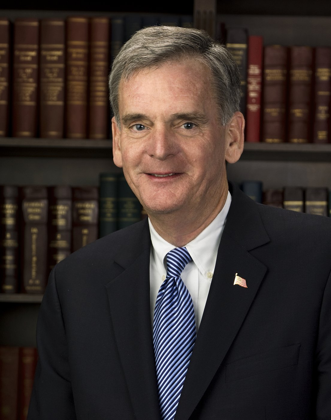 Official photo of Senator Judd Gregg (R-NH).